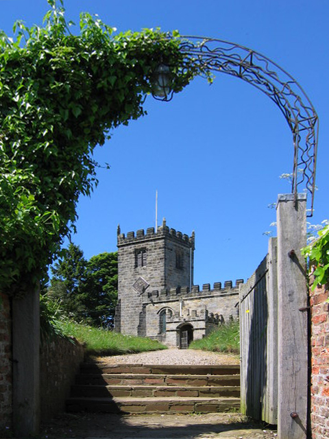 St. Cuthbert's Church, Crayke, North Yorkshire. Built in the 13th century with additions and renovations from the 14th through 17th centuries. Restored during the Victorian Era, and many internal features date from that period.